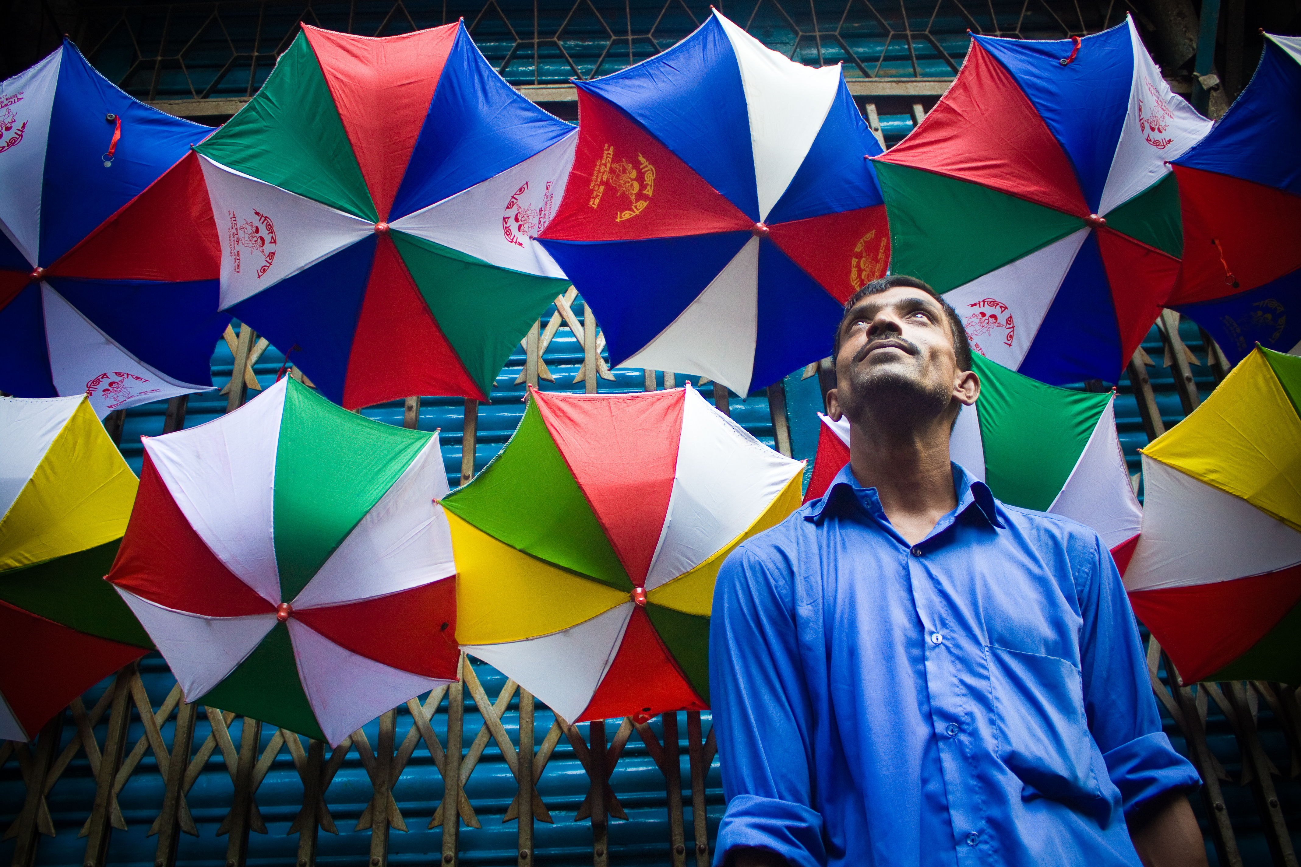 Someday, when the time is right, God will send me the shower of hope to pass through the next stormy night. [Taken at the Tatibazar Street for the assignment "Life around the Shakharibazar Road"]